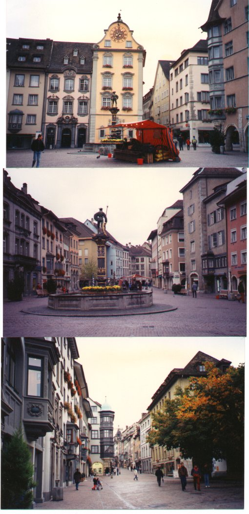 Description: 3 photos of old town Schaffhausen Author: photos by Infrogmation Date: 1993